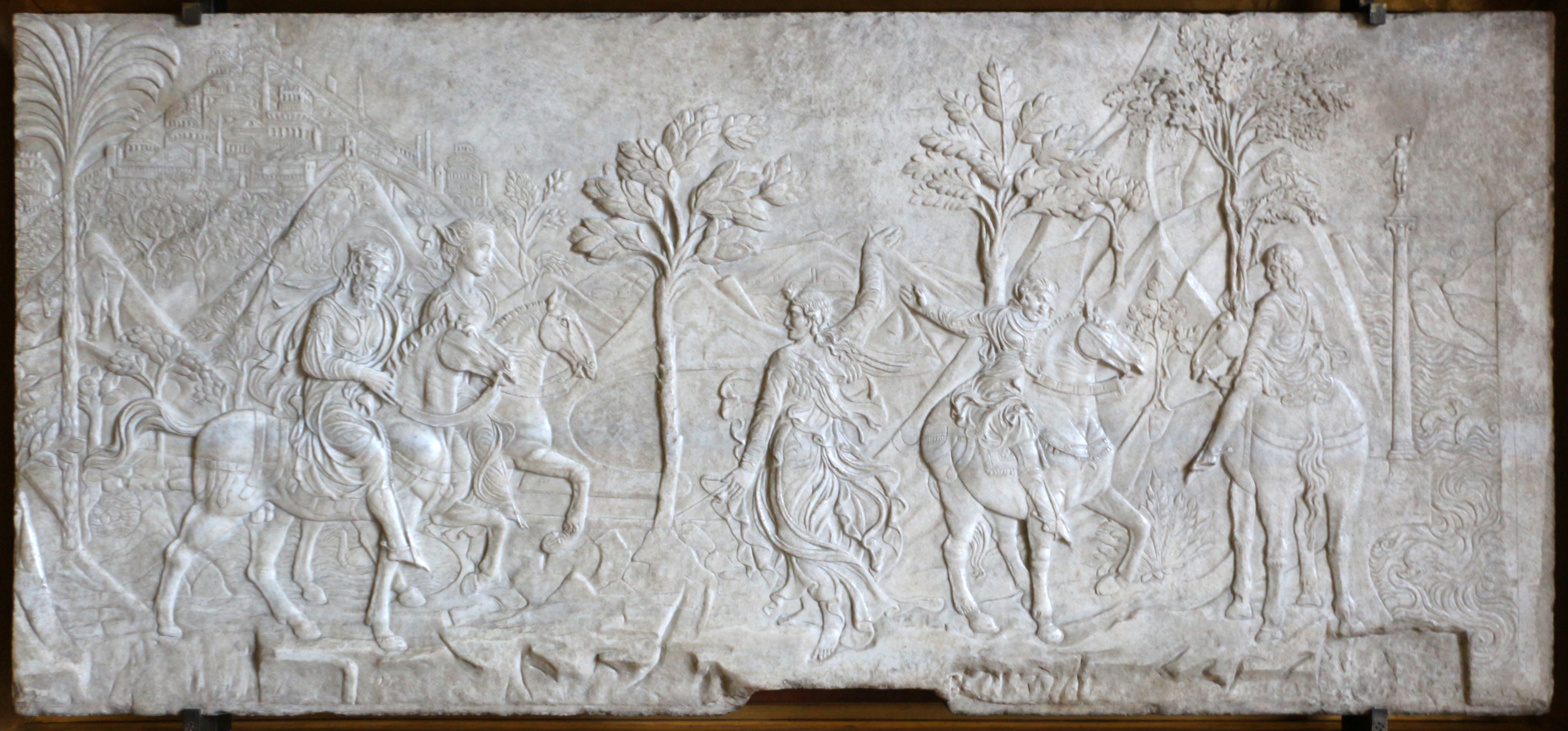 Allegorical relief by Agostino di Duccio